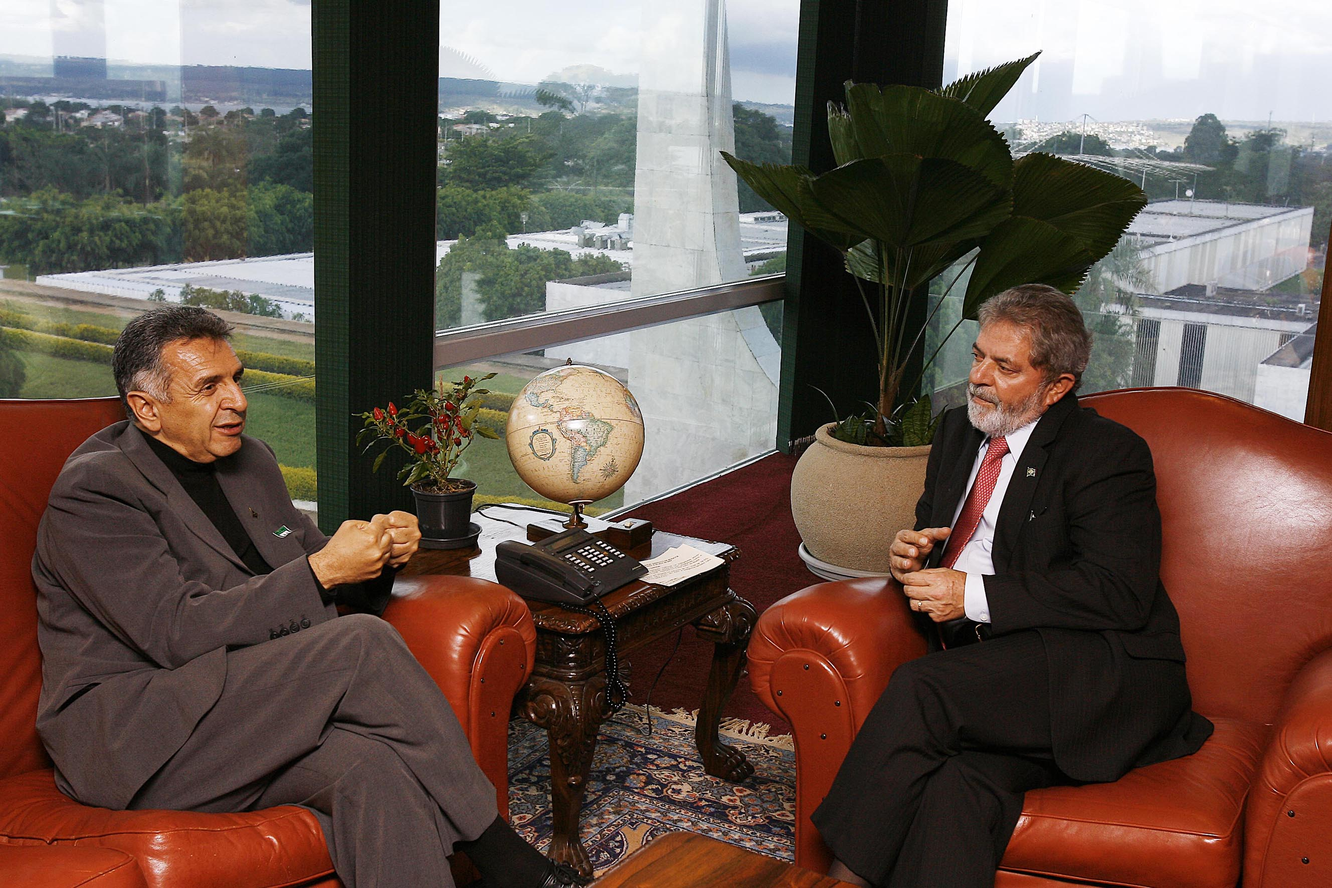 Luis Eduardo Garzon former Mayor of Bogota, Colombia with Lula Da Silva president of Brasil.